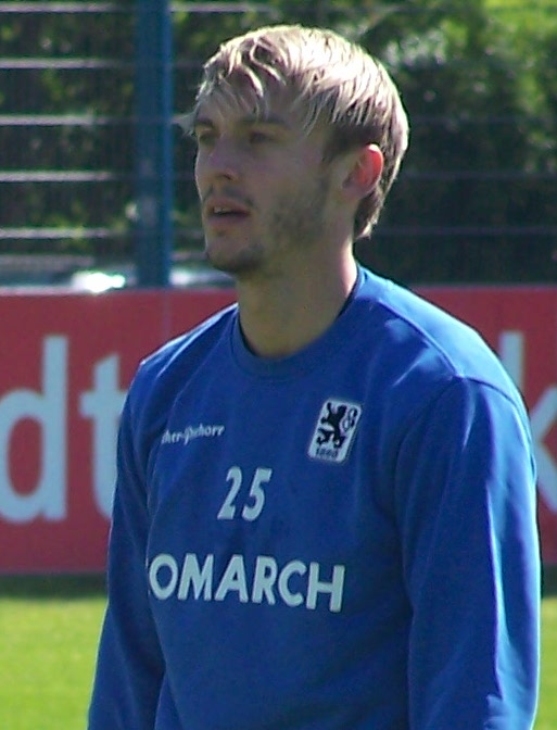 Julian Ratei, 1860 München, training